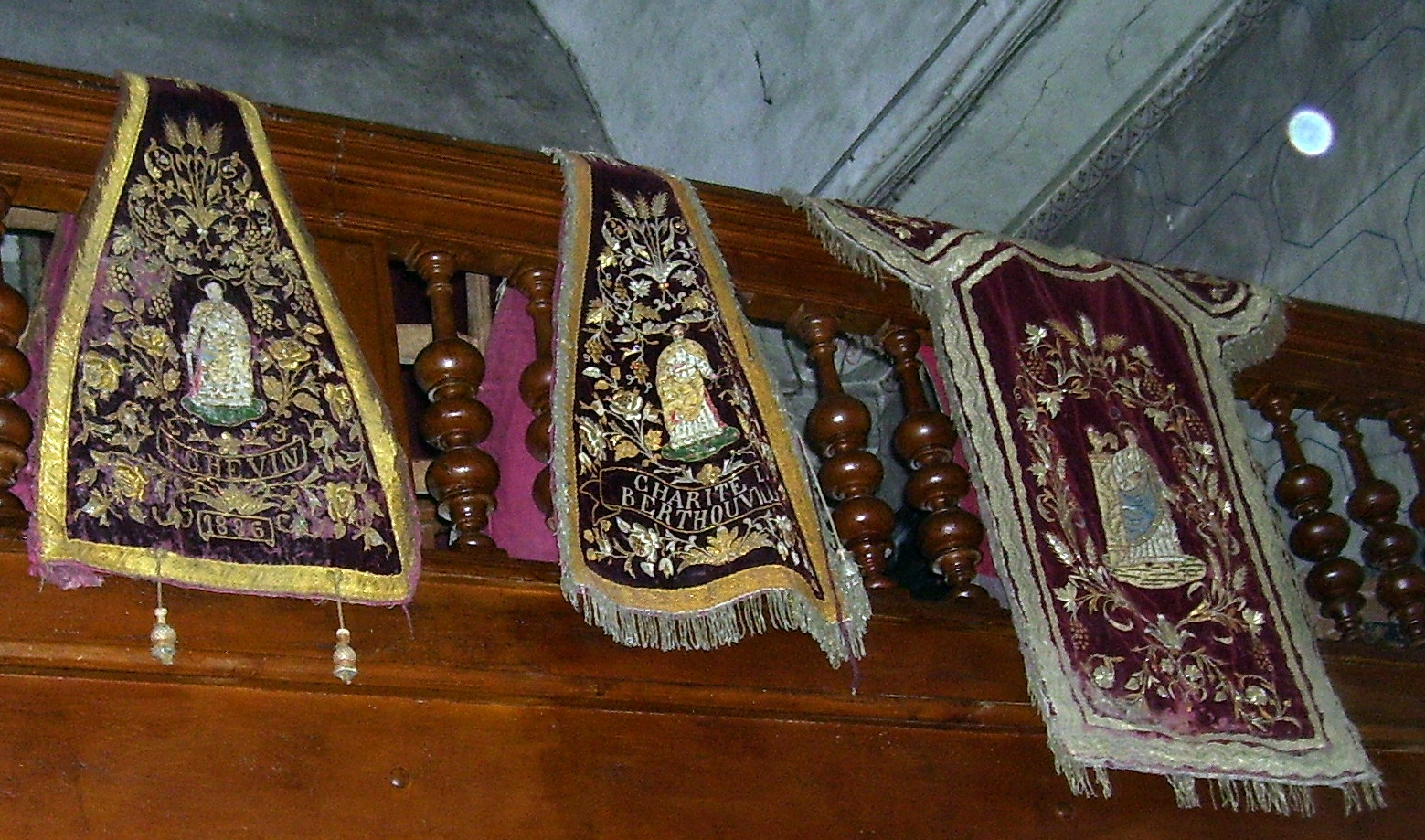 Two Sashes (1886) and a sleeveless tabard of the Confrérie de charité (‚Brotherhood of charity’) of Berthouville (Eure, Haute-Normandie,France).